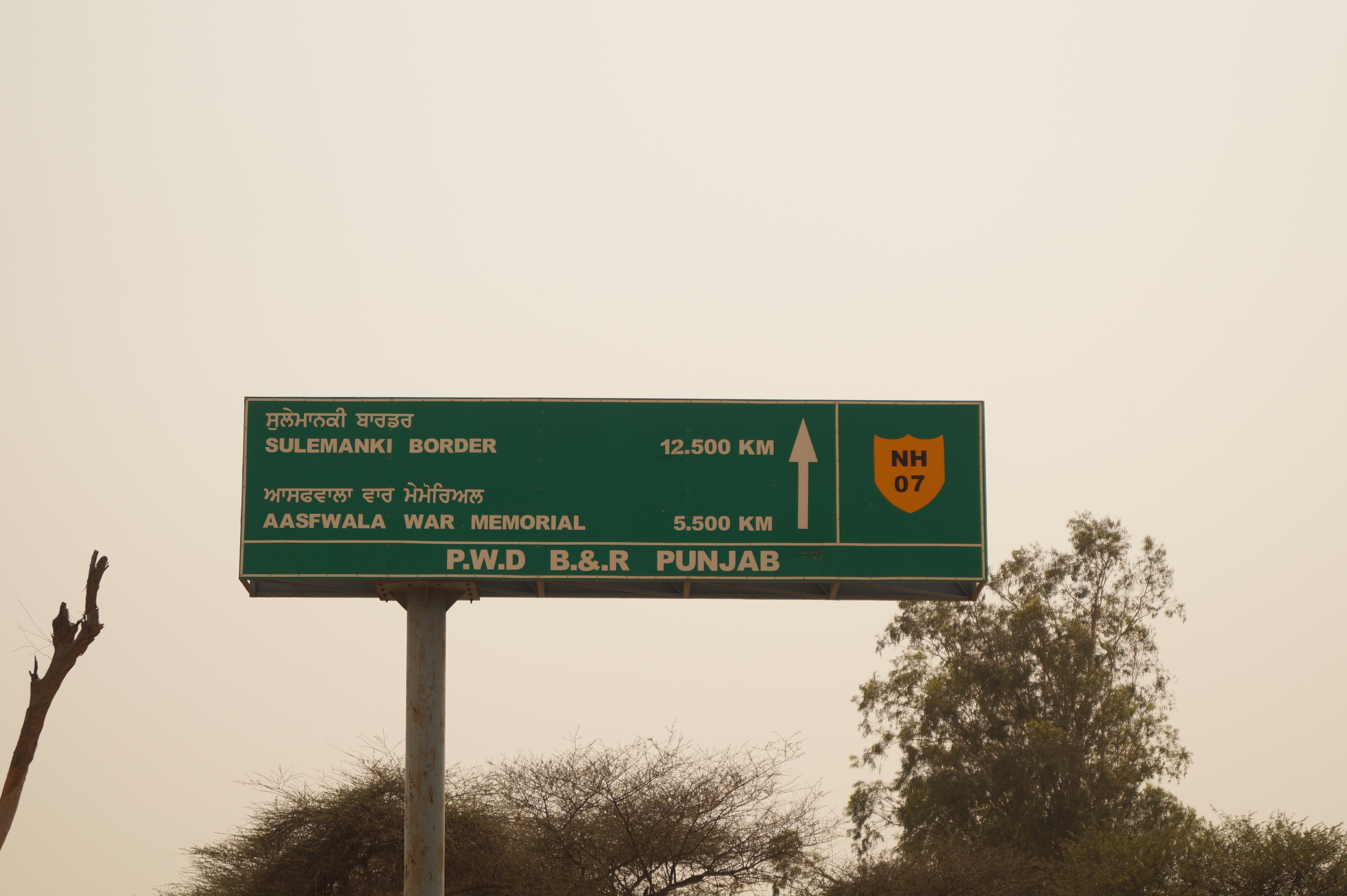 Sign board which show the way to Sulemanki Border (Sadqi Border)